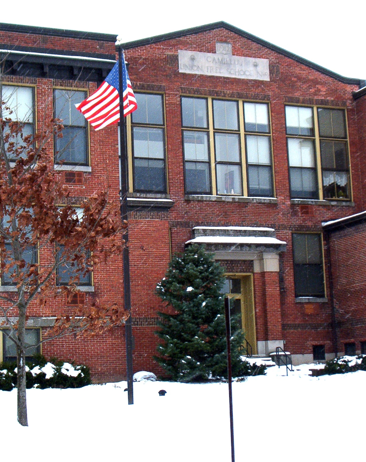 Camillus Union Free School front door detail